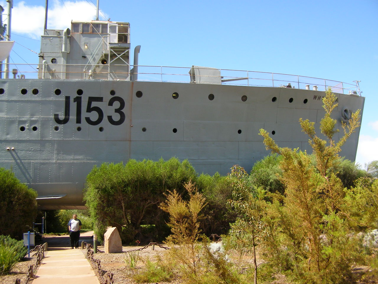 The World War 2 corvette, the HMAS Whyalla, at Whyalla, South Australia